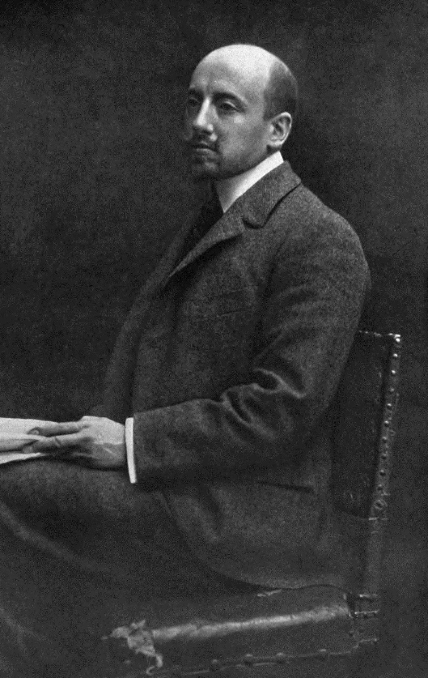 Gabriele D'Annunzio, Prince of Montenevoso